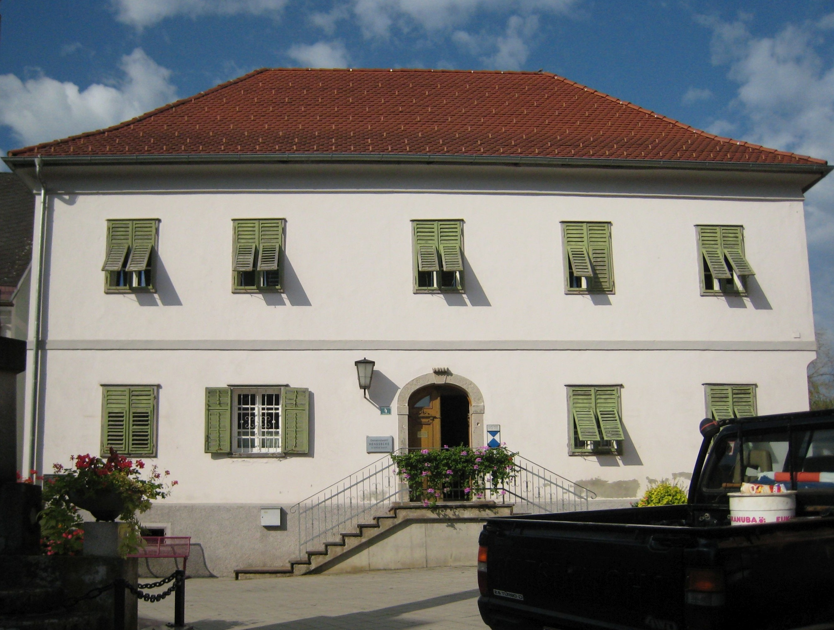 Town hall in Hengsberg (former primary school), Styria, Austria